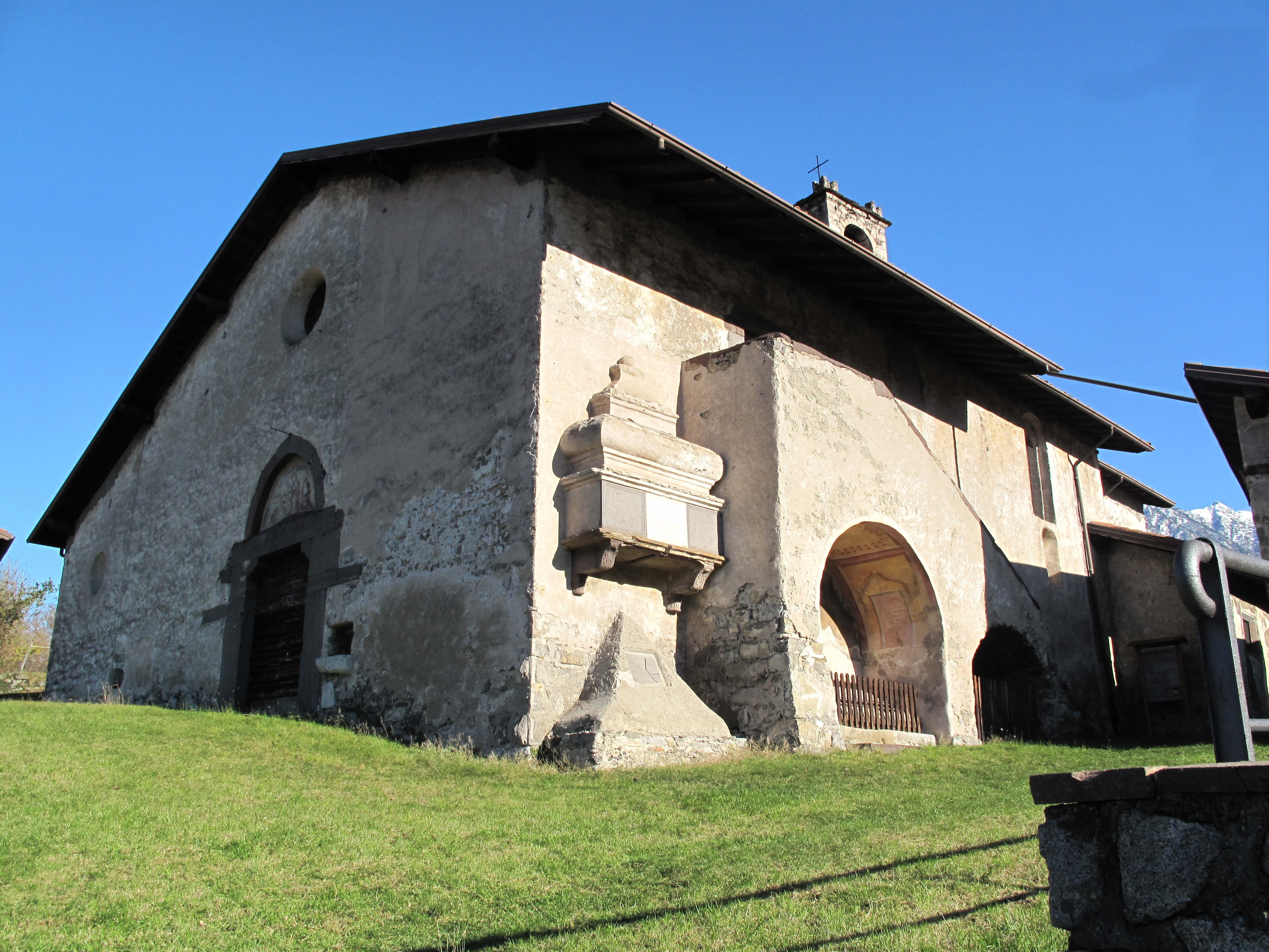 East side of Colle di San Lorenzo in Berzo Inferiore (Brescia - Italy). Under the stares, the probable tomb of San Glisente. Lato est della chiesa di San Lorenzo, a Berzo Inferiore (BS). Visibile anche la presunta tomba di San Glisente